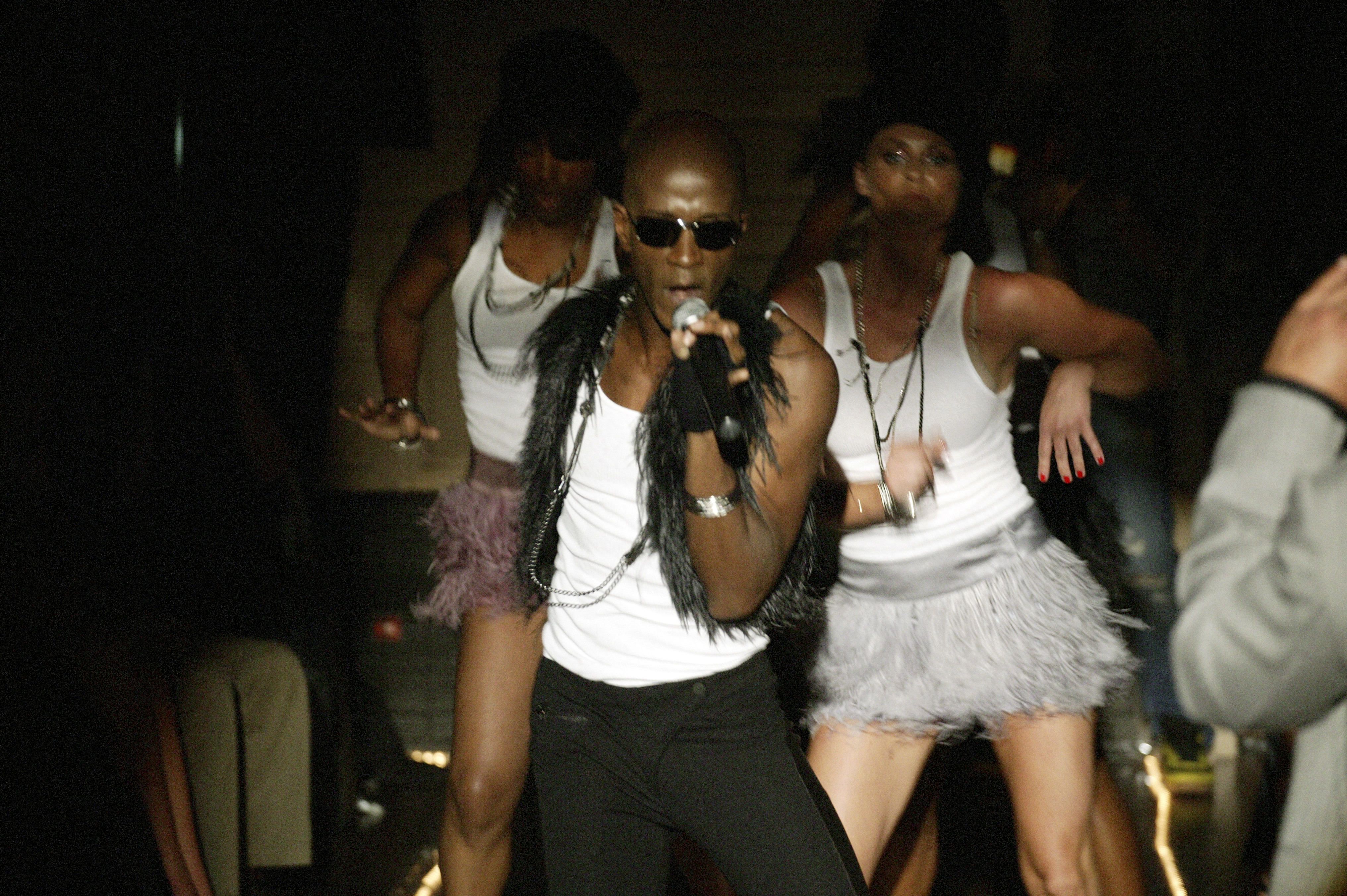 Farrad performing live for Fashion Week in NYC